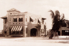 Art and Culture Center building, circa 1924.